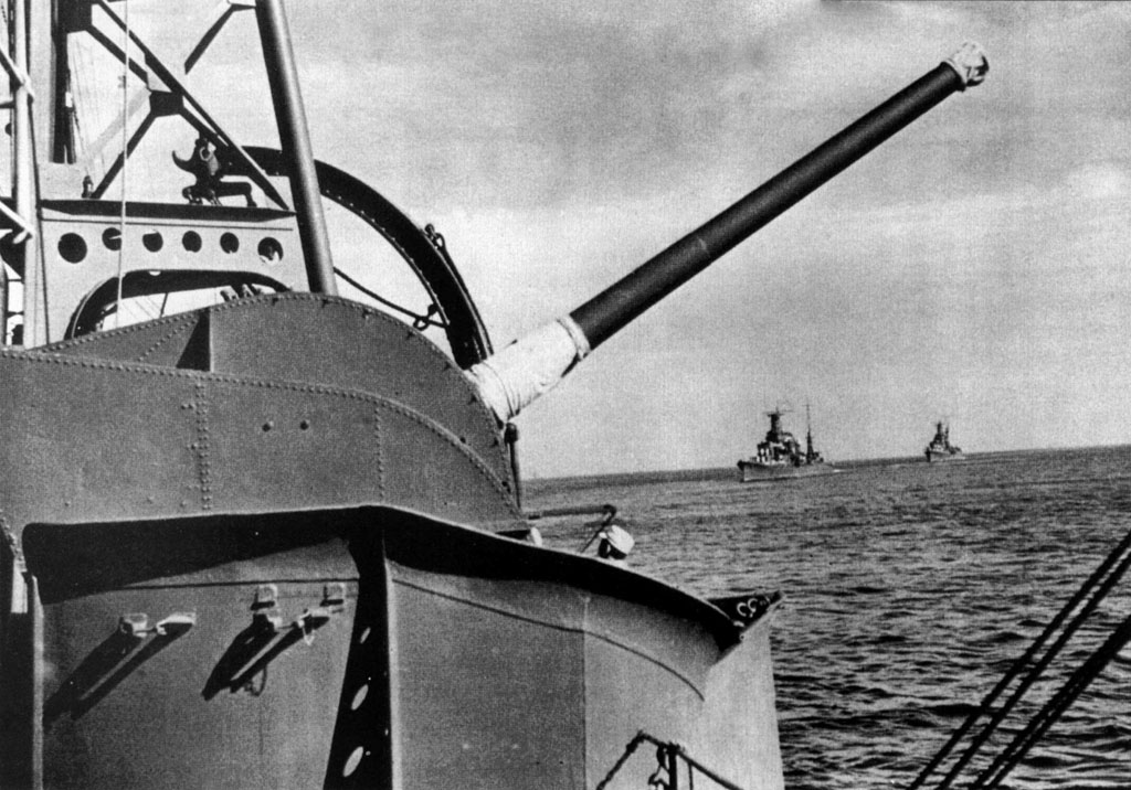 120mm/45 10th Year Type gun of the Imperial Japanese Navy in the single mount B2 Model on board of heavy cruiser Kako. This is no. 2 mount (forward, port), looking aft. Behind 120mm mount there's part of lattice tower of the 110cm searchlight and davit. In background are heavy cruisers Furutaka (middle) a Kinugasa (right). Picture was taken after 1937 refit in years 1939-1942.